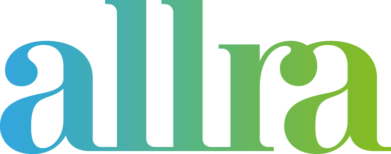 Allra Logo